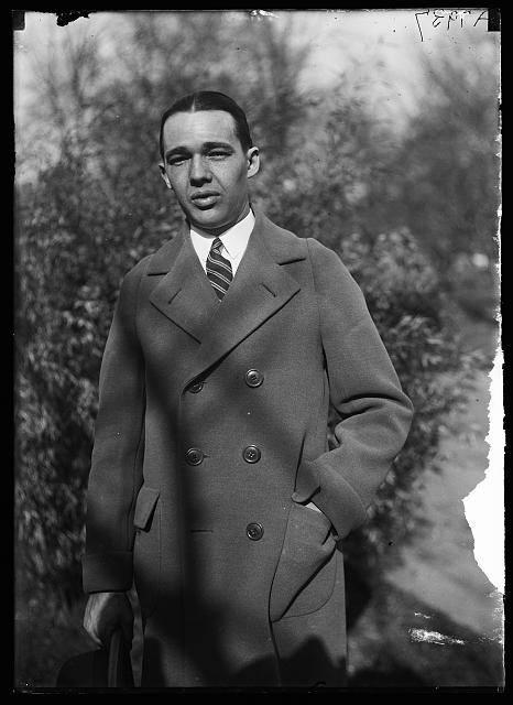 Richard W. O'Neill, World War I recipient of the Medal of Honor